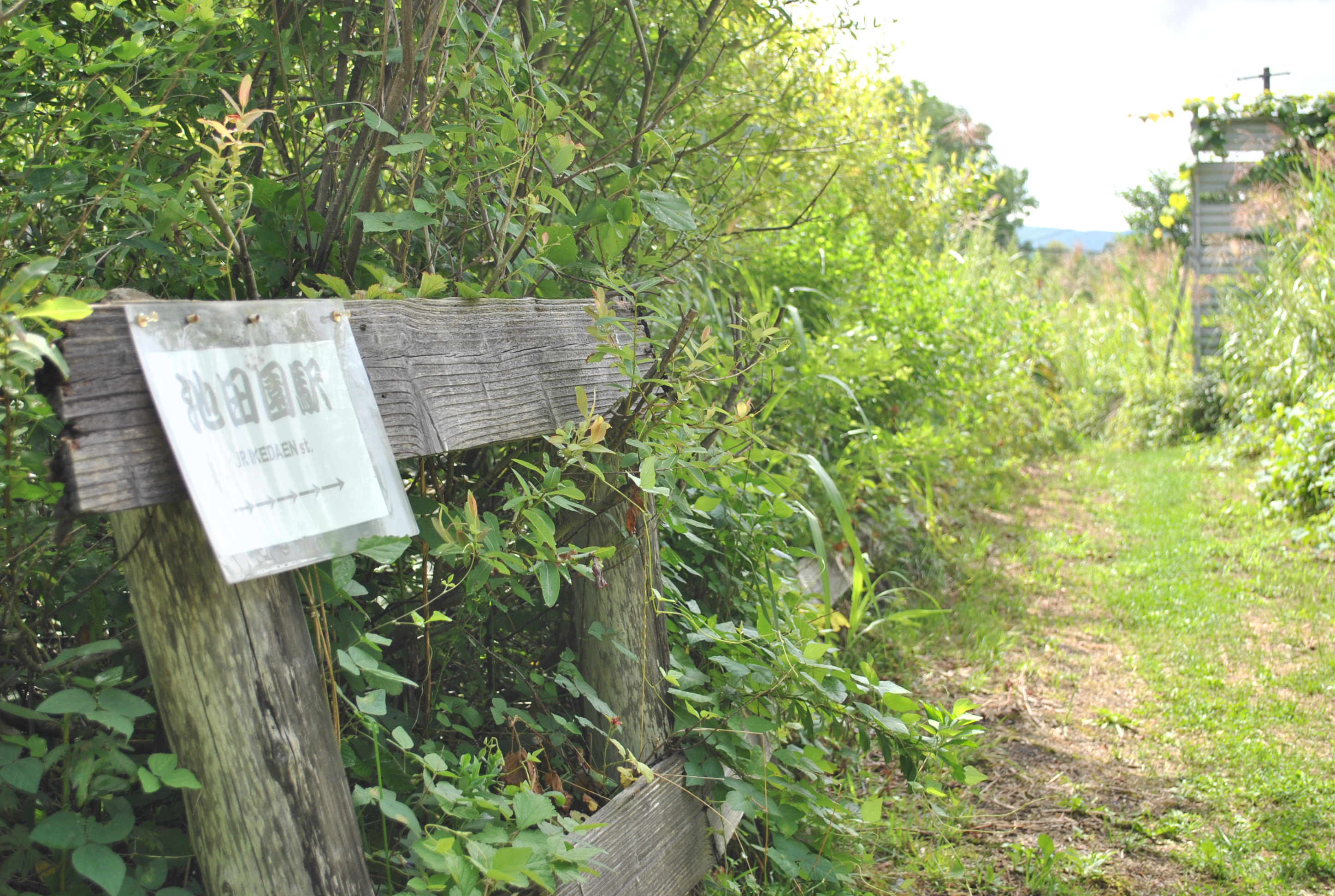 Ikedaen Station(Hokkaido Railway Company)